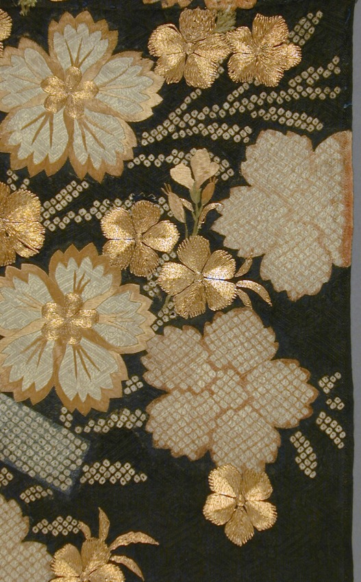 Japan, Edo period, first half of 18th century Costumes; principal attire (entire body) Silk and metallic thread embroidery, stenciled imitation tie-dyeing, figured silk (rinzu) Gift of Miss Bella Mabury (M.39.2.299) Costume and Textiles